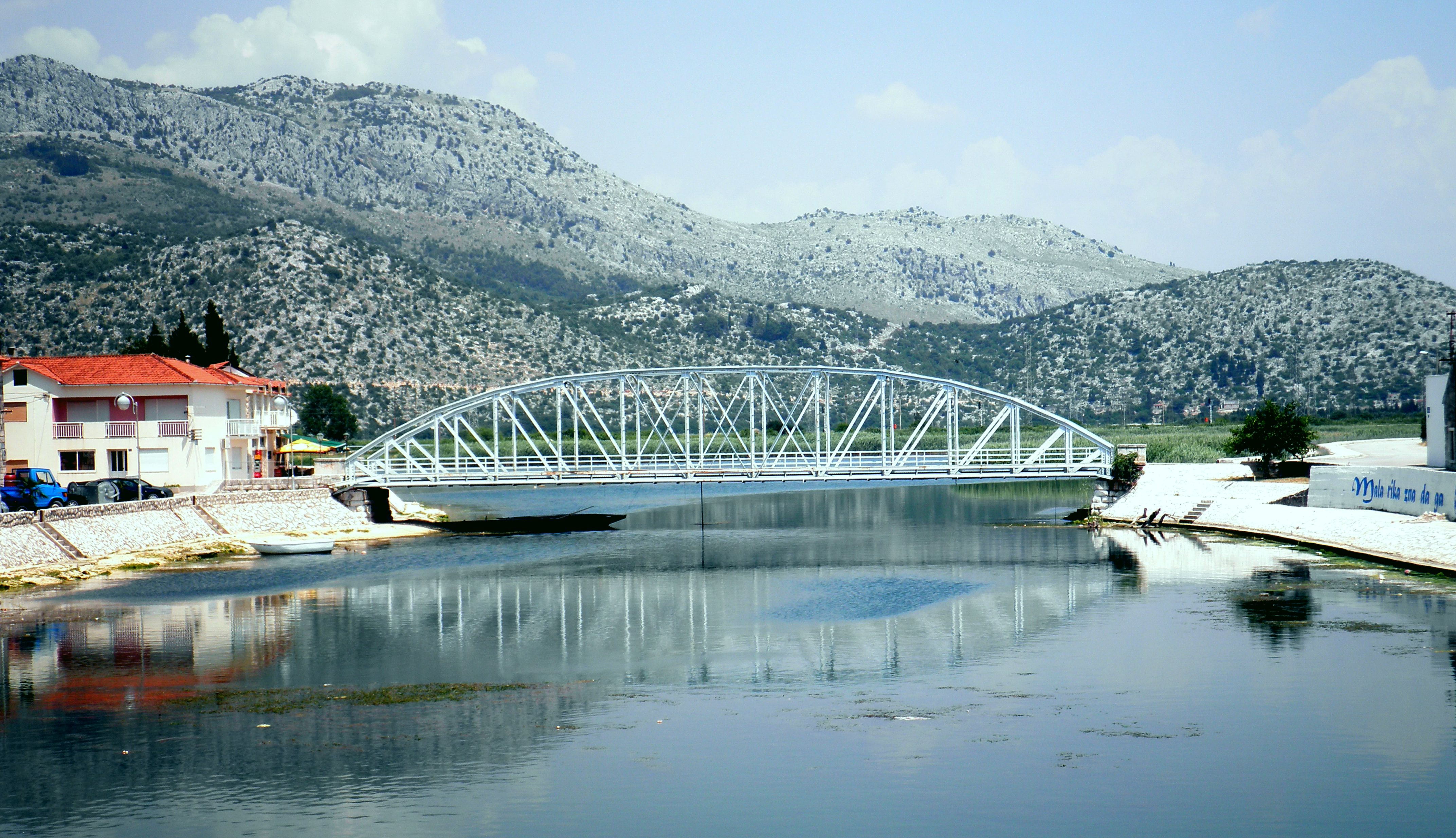 Bridge over The Mala Neretva river in Opuzen